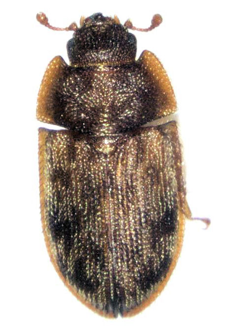 adult Neaspis variegata